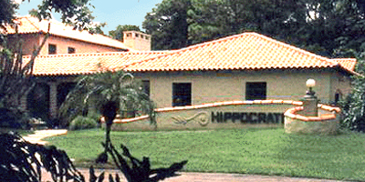 Hippocrates Health Institute Florida, USA